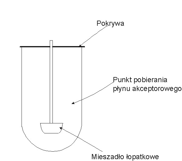 dissolution test machine